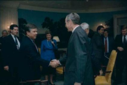 VIEWS OF DAVID DEMAREST AND HIS DAUGHTER IN HIS OFFICE. PRESIDENT BUSH WALKS ON THE SOUTH LAWN DRIVEWAY WITH GOV. SUNUNU AND VP QUAYLE. THEY GREET GUESTS IN THE DIPLOMATIC RECEPTION ROOM PRIOR TO THE GROUP'S PRIVATE LUNCHEON IN THE DINING ROOM. GUESTS INCLUDE: CRAIG FULLER, PETE TEELEY, FRED MALEK, HALEY BARBOUR, CHARLIE BLACK, JEANIE AUSTIN, SHEILA TATE, VIC GOLD, VP QUAYLE AND GOV. SUNUNU.